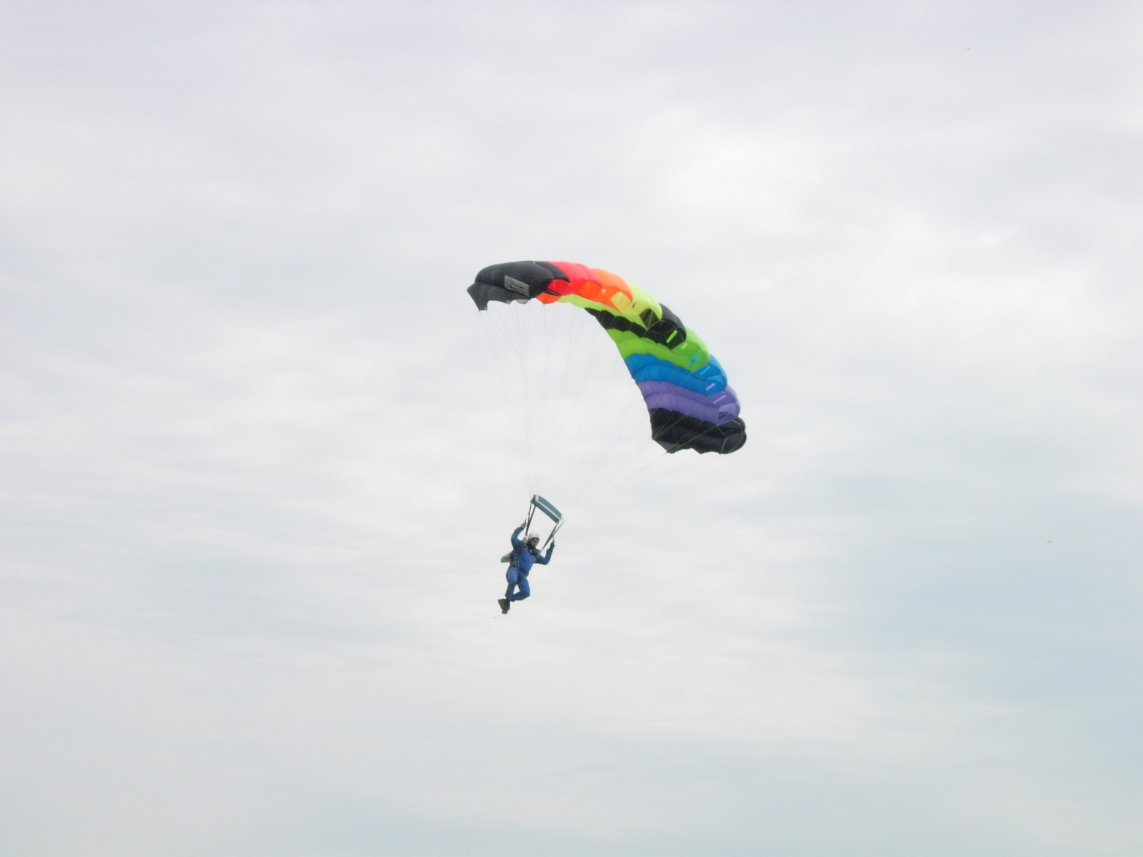 Skydiving in an airshow in Bodø, Norway